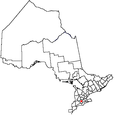 Map showing Woodstock in province Ontario.